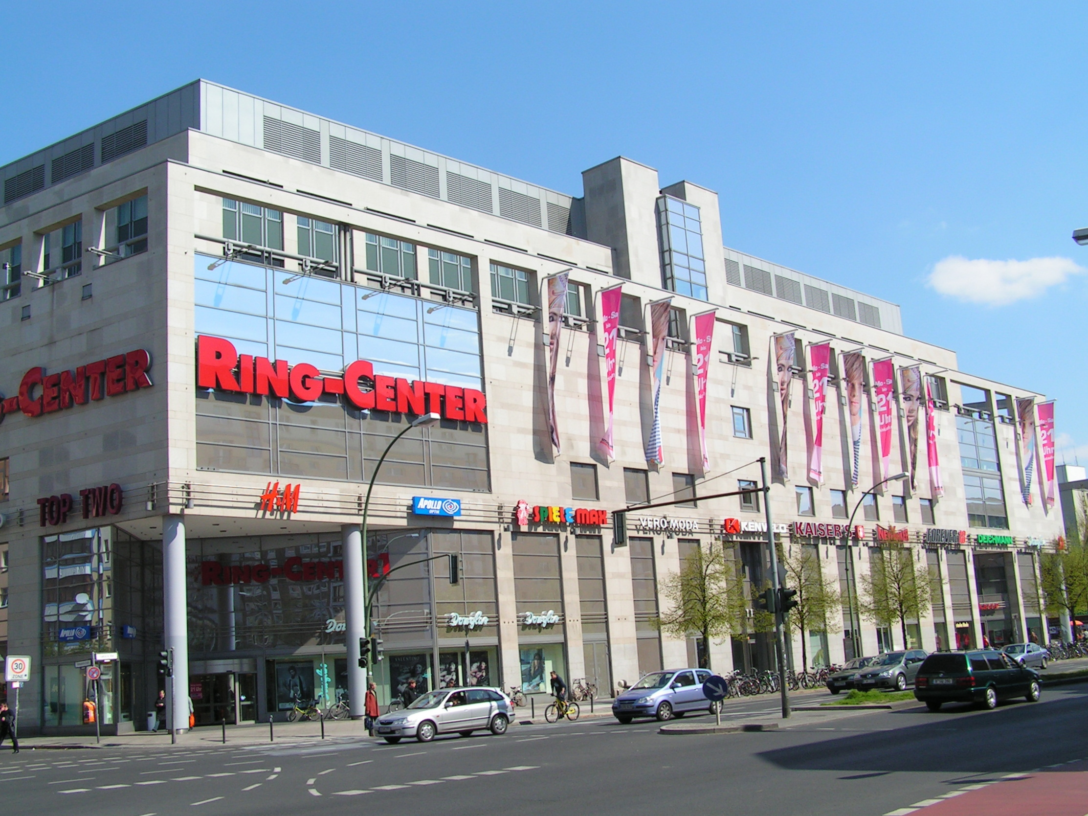 Ring-Center in Berliny, German. Original building as seen from the Frankfurter Allee.